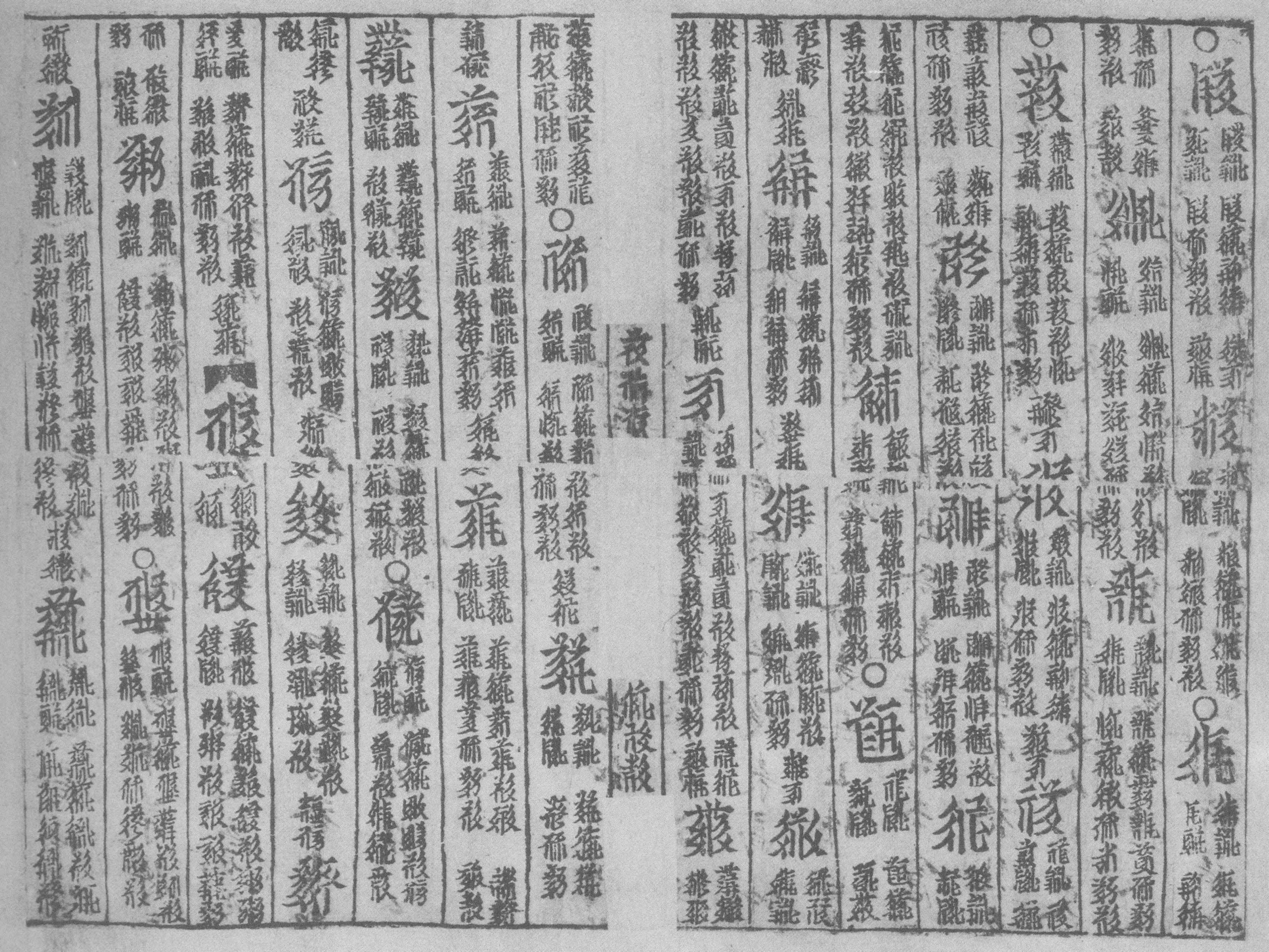 Folio 53 of the "Level Tone" section of the 12th century Tangut rime dictionary Sea of Characters (Chinese Wenhai 文海). A unique copy of a woodblock edition found at Kharakhoto in 1909.